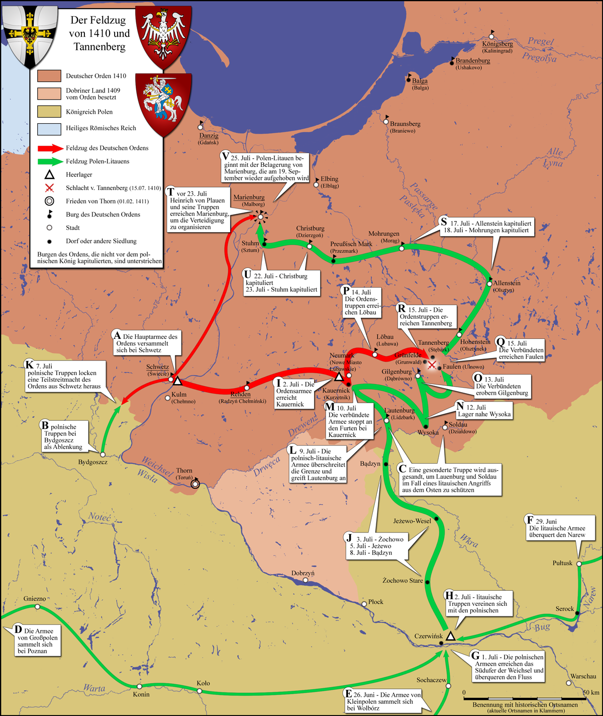 The Way to Grunwald 1410 and the First Peace of Thorn 1411.